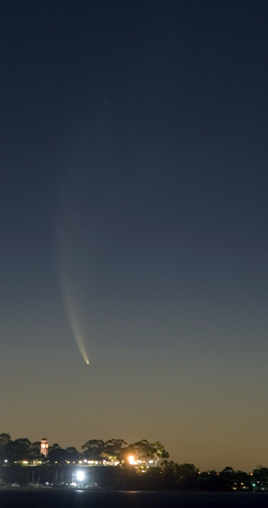 C/2006 P1 Comet McNaught from Como Western Australia.